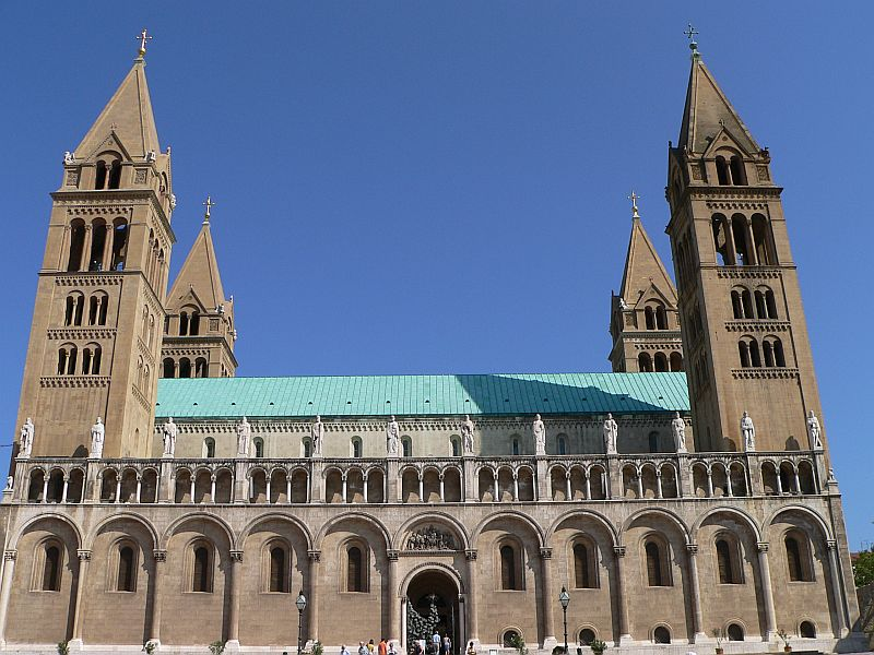 Dom von Pecs This is a photo of a monument in Hungary, Identifier: 1796